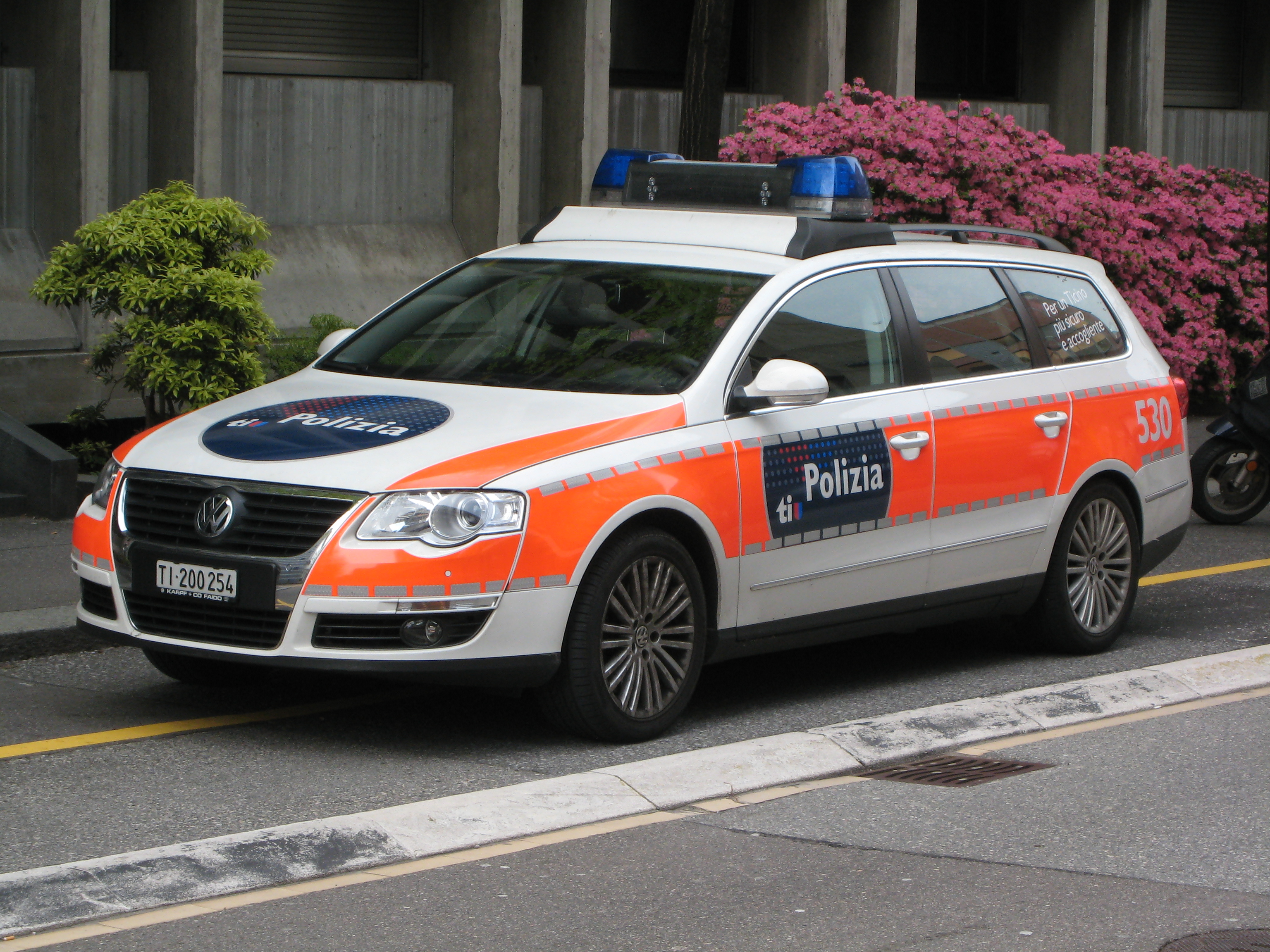 A patrol car of the cantonal police of Ticino, Switzerland.